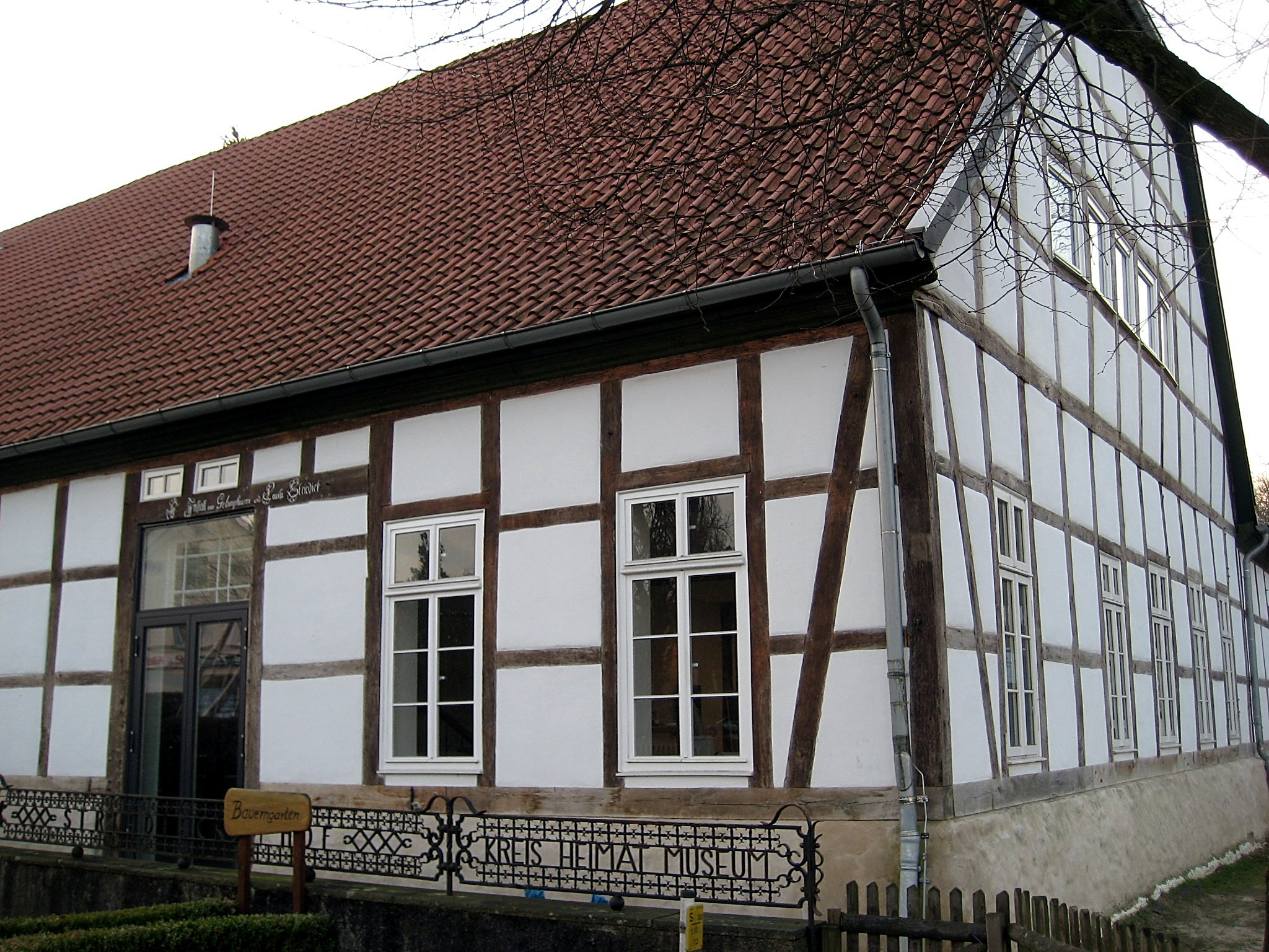 This is a photograph of an architectural monument. It is on the list of cultural monuments of Bünde